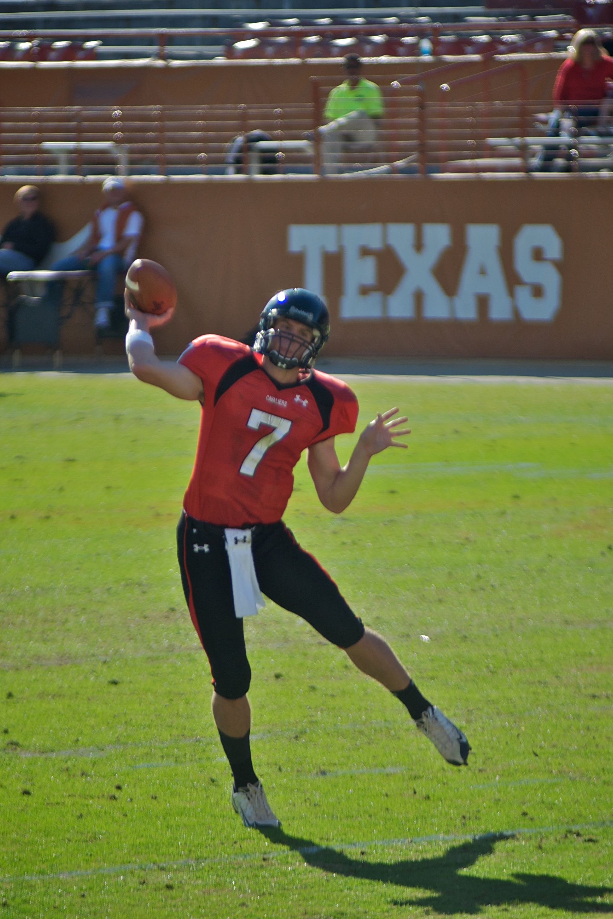 Garrett Gilbert throws in a playoff game versus Killeen